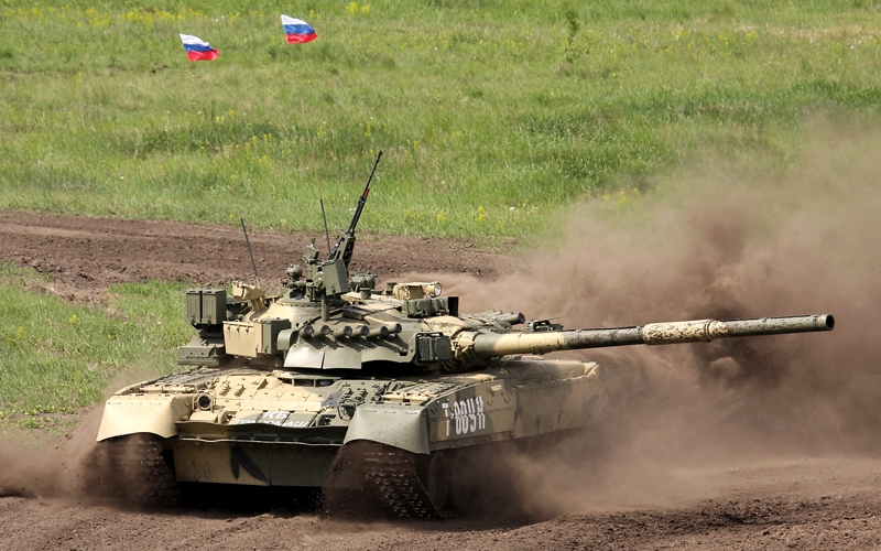 T-80UK tank at VTTV-Omsk in 2009.